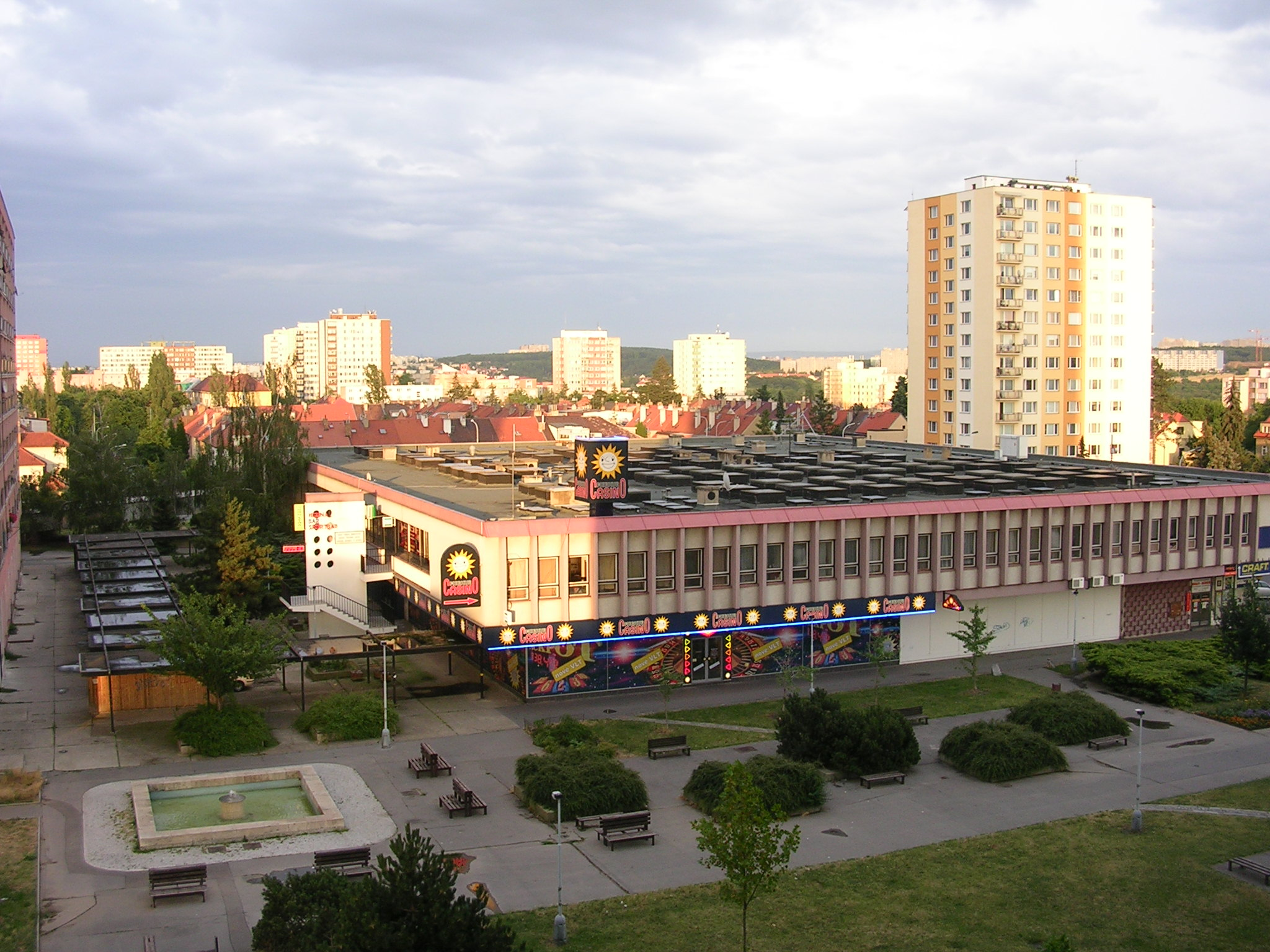 Záběhlice, Prague, the Czech Republic.